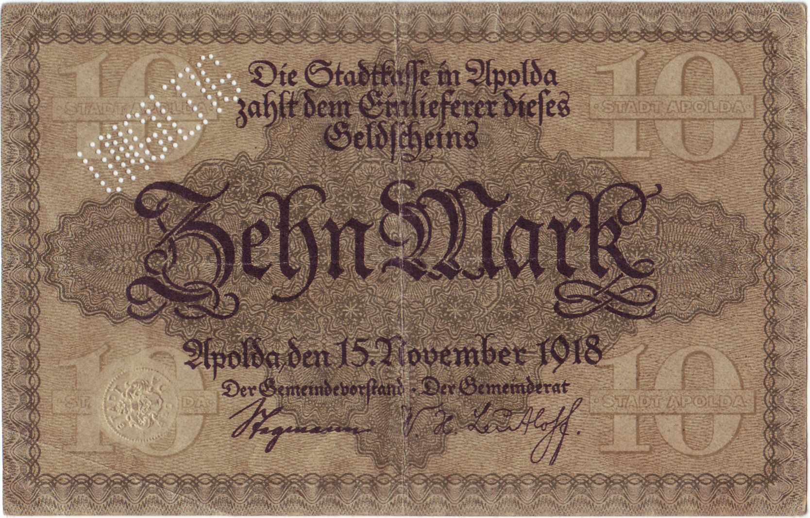 10 Mark Apolda, 1918, front, 90 mm x 139 mm